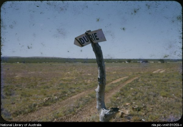 Signpost to Durrie Station in channel country Queensland1950